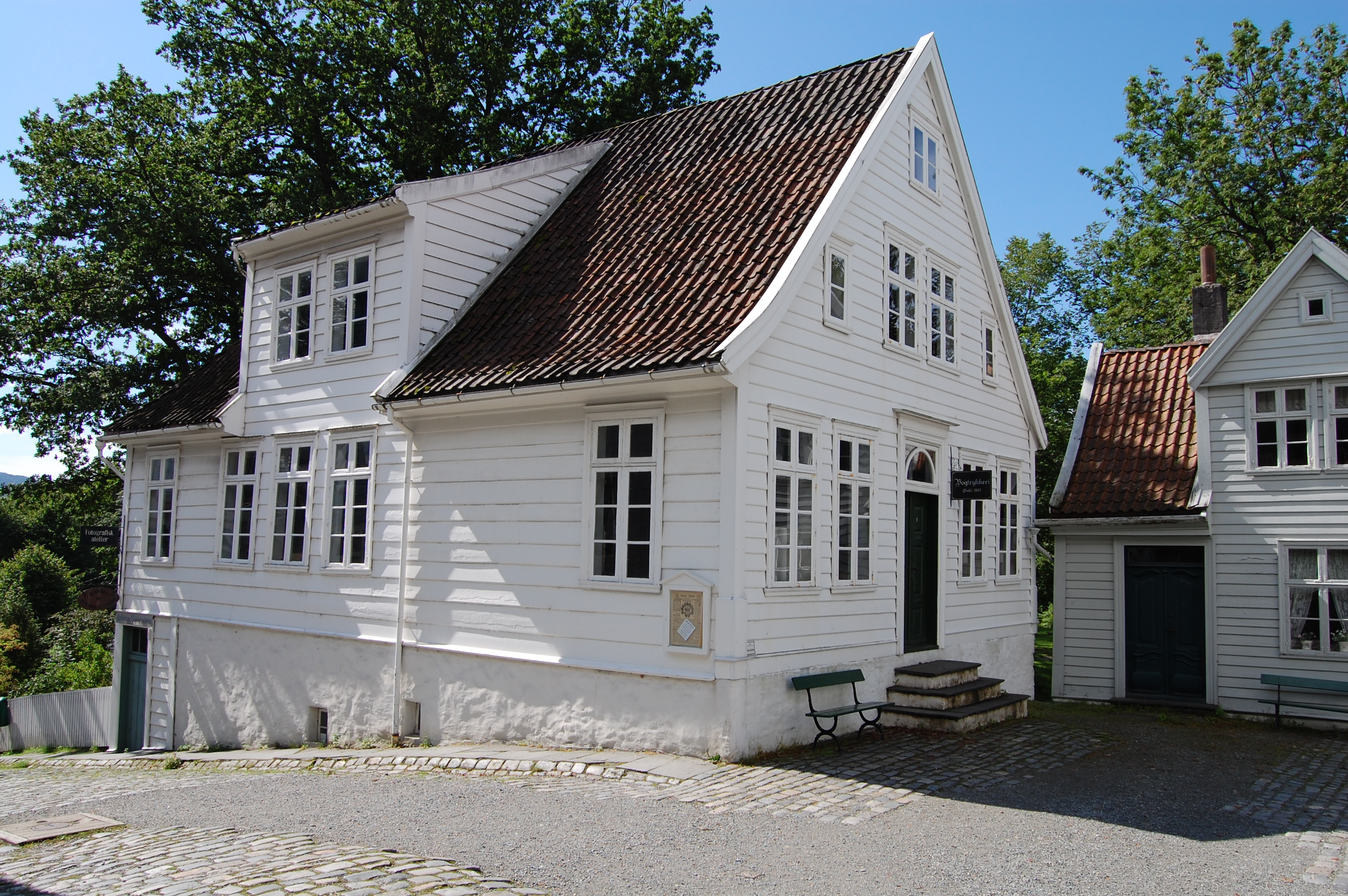 Nordnesgaten 23 at Gamle Bergen